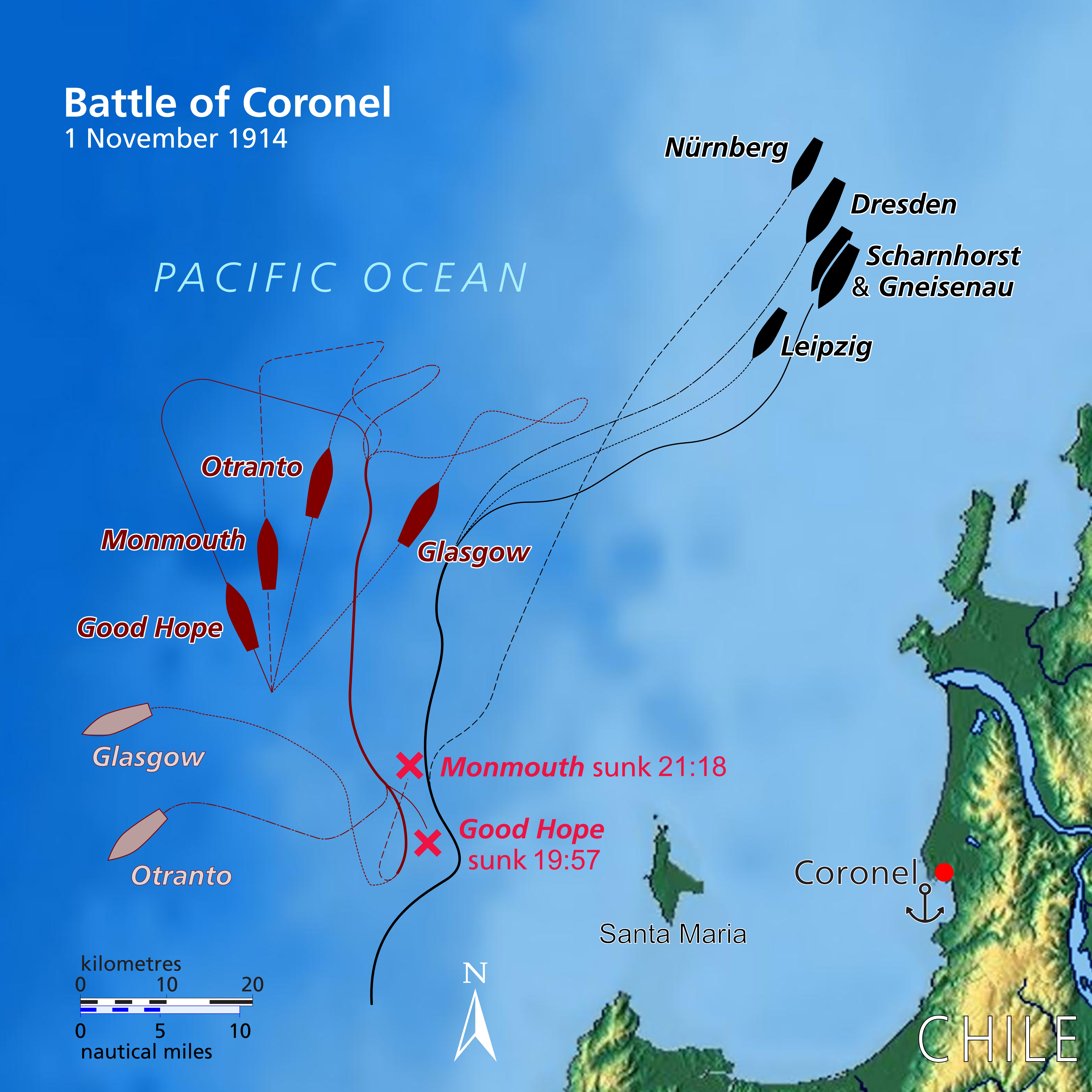 Map of the Battle of Coronel, 1 November 1914. British ships & movements in dark red, German in black.